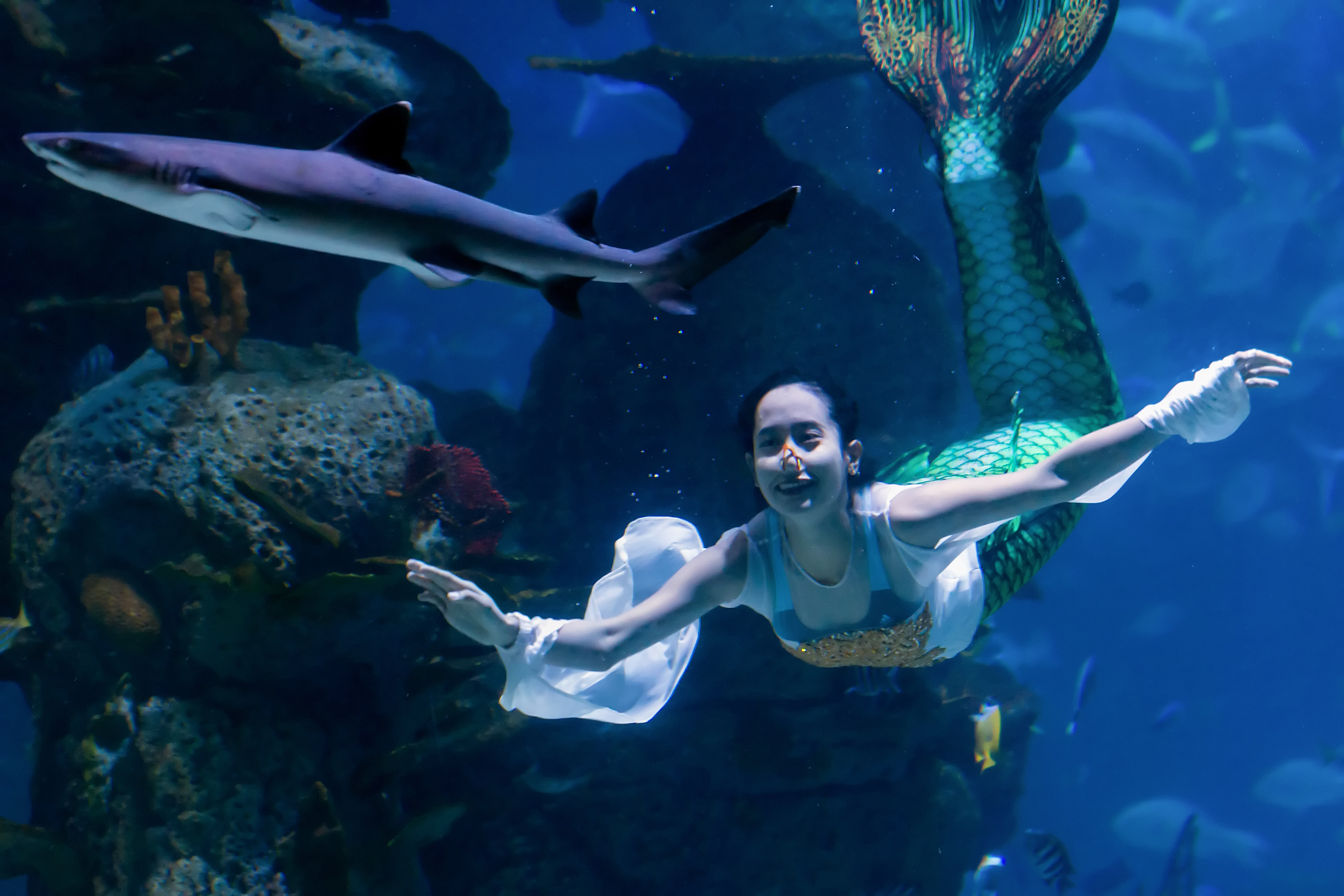 Mermaid performance, Jakarta Aquarium, Neo Soho, Jakarta 2018-06-28 01